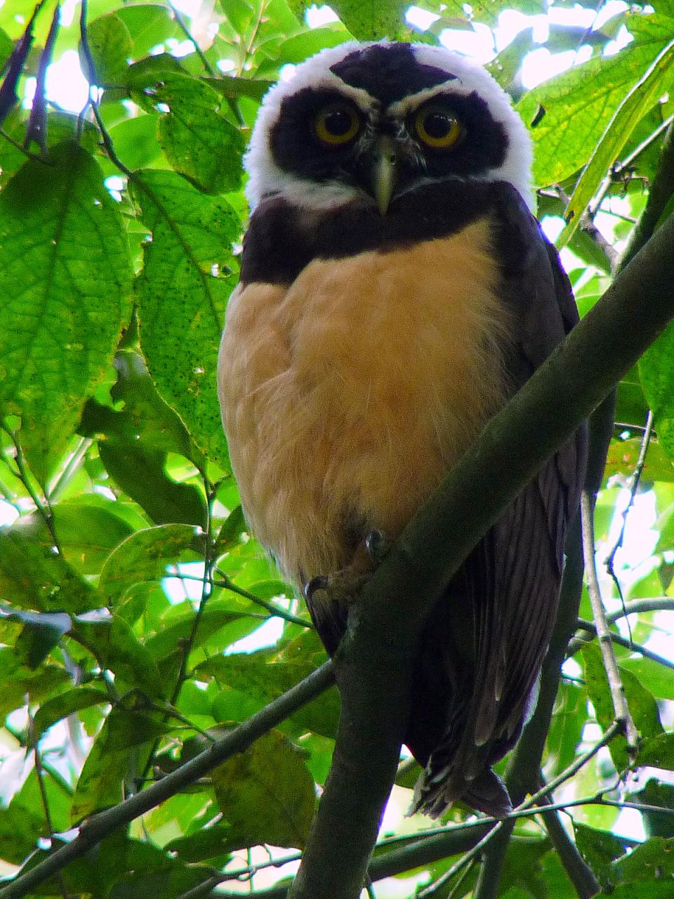 A Spectacled Owl in Manizales, Caldas, Colombia.